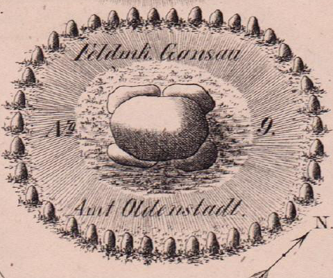 Megalithic tomb near Hanstedt II